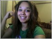 Silvia Feliciano.